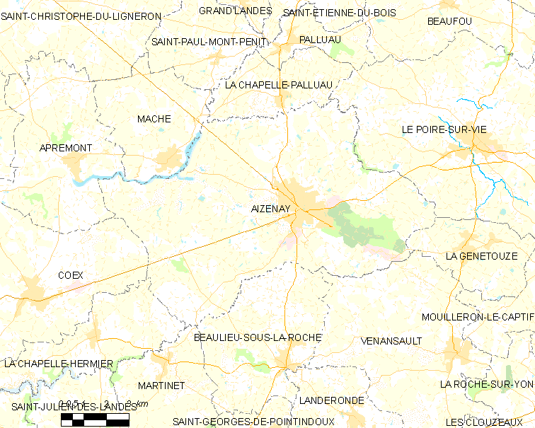 Map of French municipality Aizenay